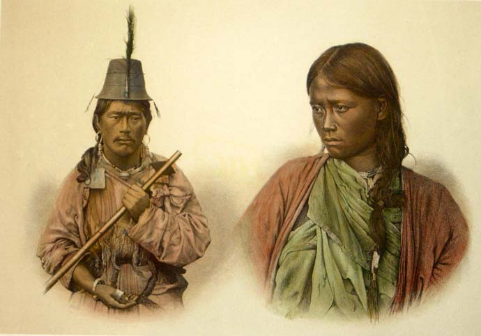 From Dalton's "Descriptive Ethnology of Bengal," 1872; engravings with modern hand coloring: "Bendkar: Male and Female"* "Bhotia: Man and Woman"* "Bhuiya: Male and Female"* "Fakial and Miri"* "Garos"* "Ho: Girl and Woman"* "Juang"* "Kachari"* "Kuki"* "Lepcha: Man and Woman"* (shown above) "Limbo"* "Miri: Man and Woman"* "Mug and Ho"* "Mundas"* "Munipuri: Married Woman and Young Girl"* "Namsang Naga Muttuck"* "Oraons"*